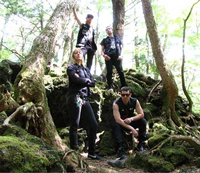 Picture of Thrall, black metal band